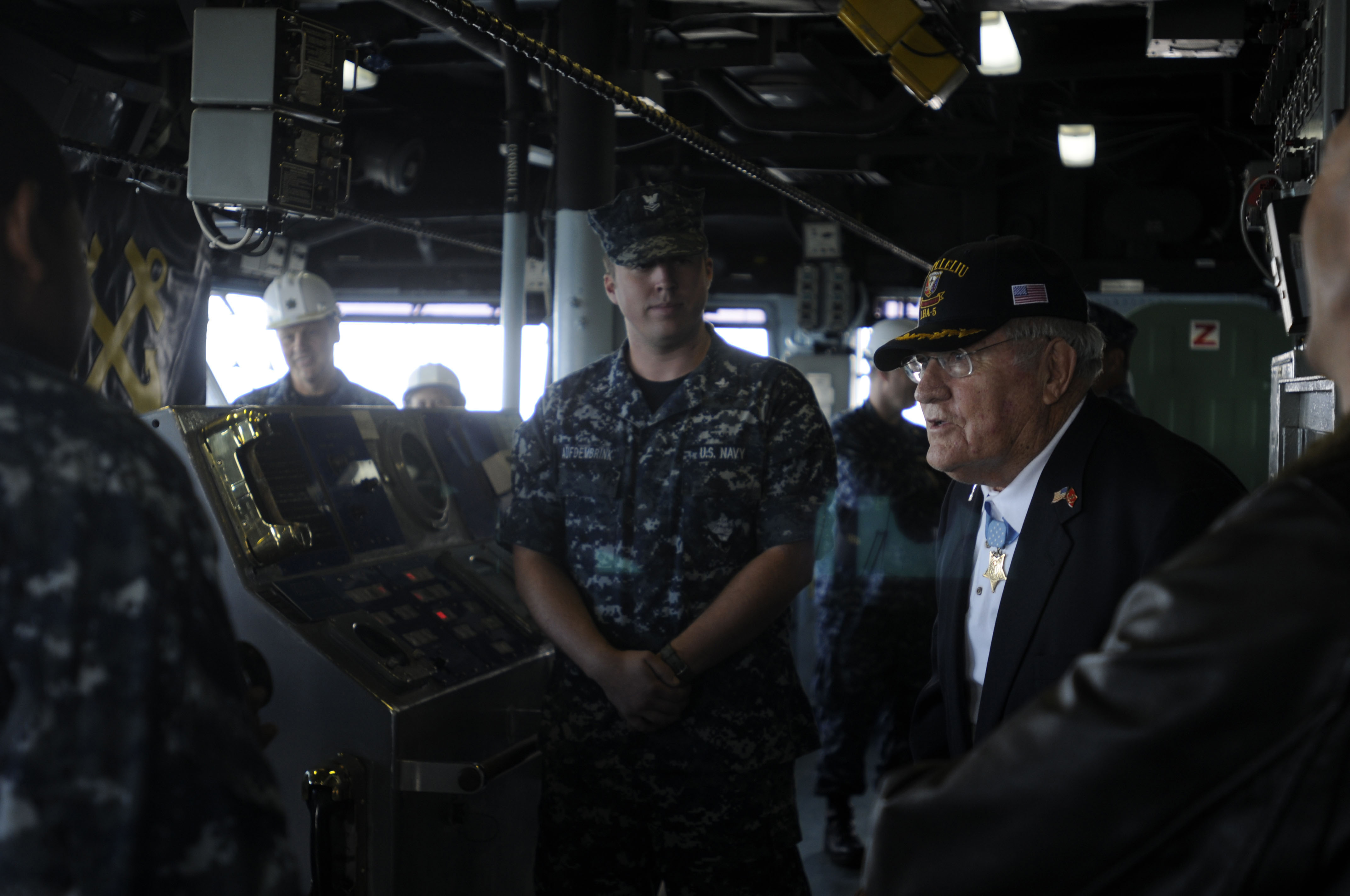 SAN DIEGO (Oct. 6, 2011) Retired Army Reserve Capt. Arthur J. Jackson speaks to Sailors aboard the amphibious assault ship USS Peleliu (LHA 5) about his war experiences. Jackson was one of eight Marines who were awarded the Medal of Honor for bravery at the Battle of Peleliu during World War II, for which the ship was named. (U.S. Navy photo by Mass Communication Specialist Seaman Apprentice Alex Van'tLeven/Released)